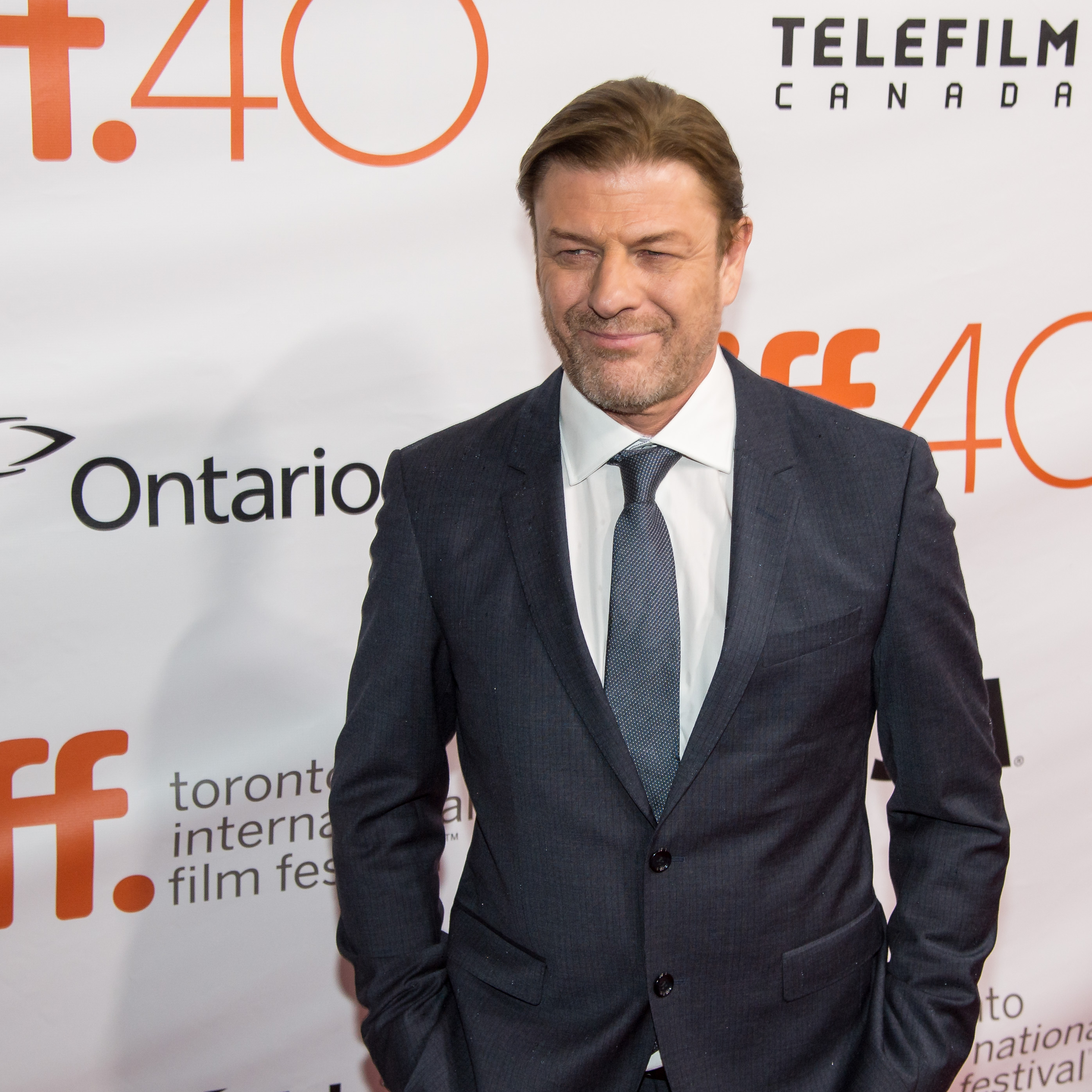 Actor Sean Bean attends the world premiere for "The Martian” on day two of the Toronto International Film Festival at the Roy Thomson Hall, Friday, Sept. 11, 2015 in Toronto. NASA scientists and engineers served as technical consultants on the film. The movie portrays a realistic view of the climate and topography of Mars, based on NASA data, and some of the challenges NASA faces as we prepare for human exploration of the Red Planet in the 2030s.